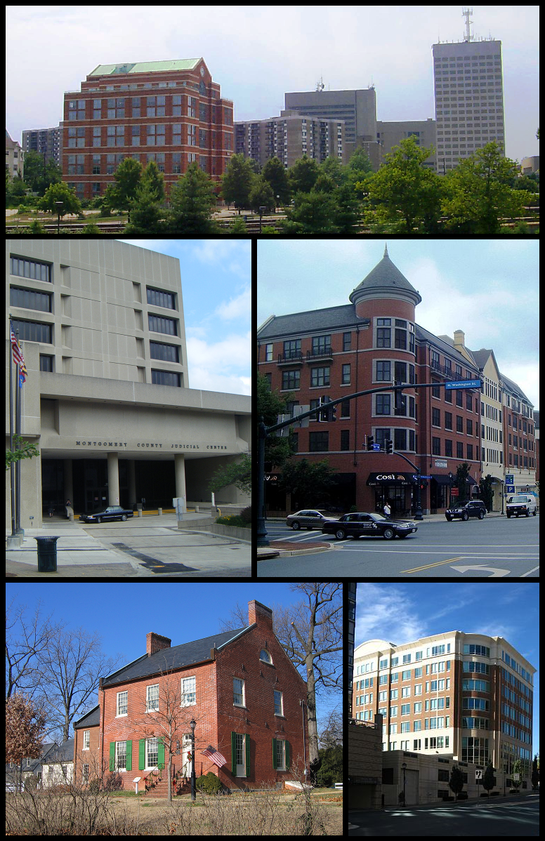 A photographic montage of Rockville, Maryland, designed for use in Wikipedia infoboxes and the like.